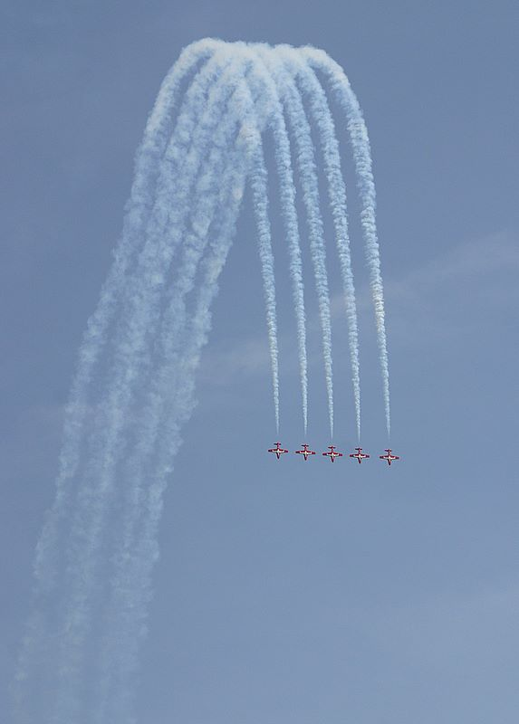 Snowbirds performing a perfect maneuver at Wings 'n Wheels Airshow, St. Thomas, ON (2007)